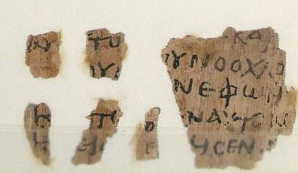 Papyrus 128 verso